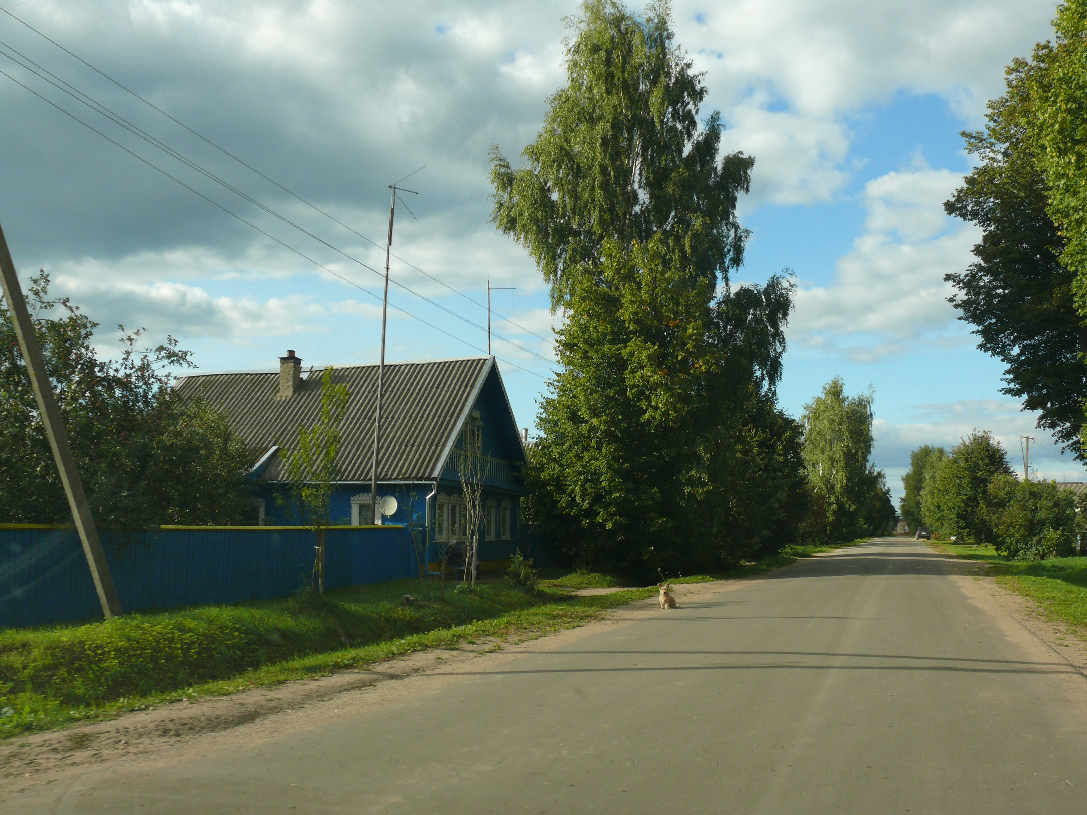 Meniusha village, Shimsky district, Novgorod oblast, Russia